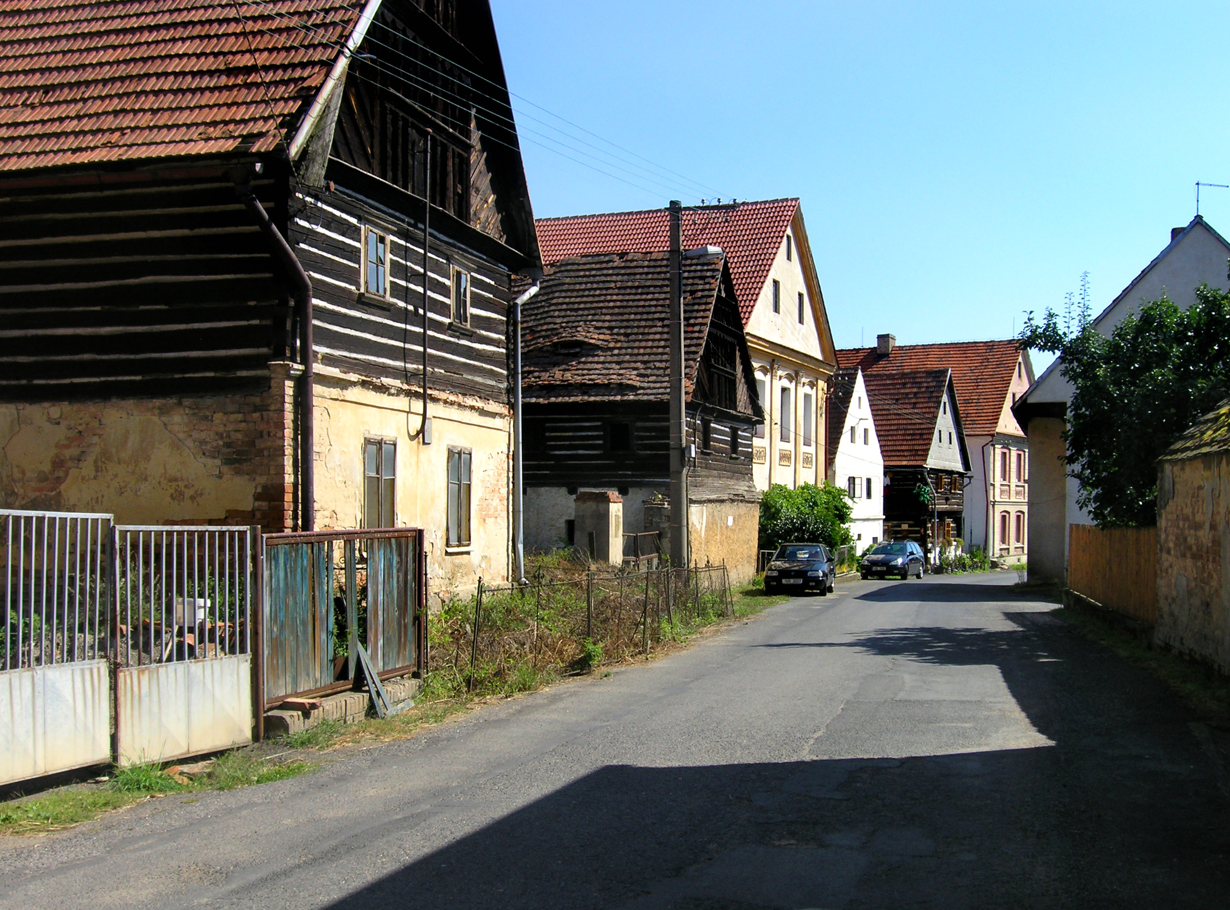 Main street in Těchobuzice, part of Ploskovice village, Czech Republic